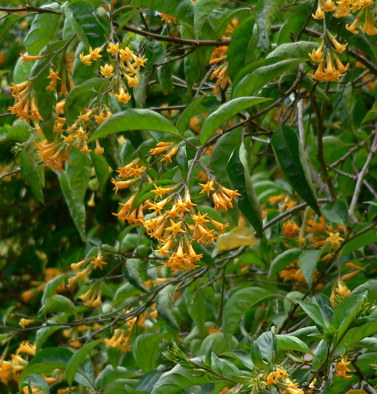 Photo of Cestrum aurantiacum at the San Francisco Botanical Garden